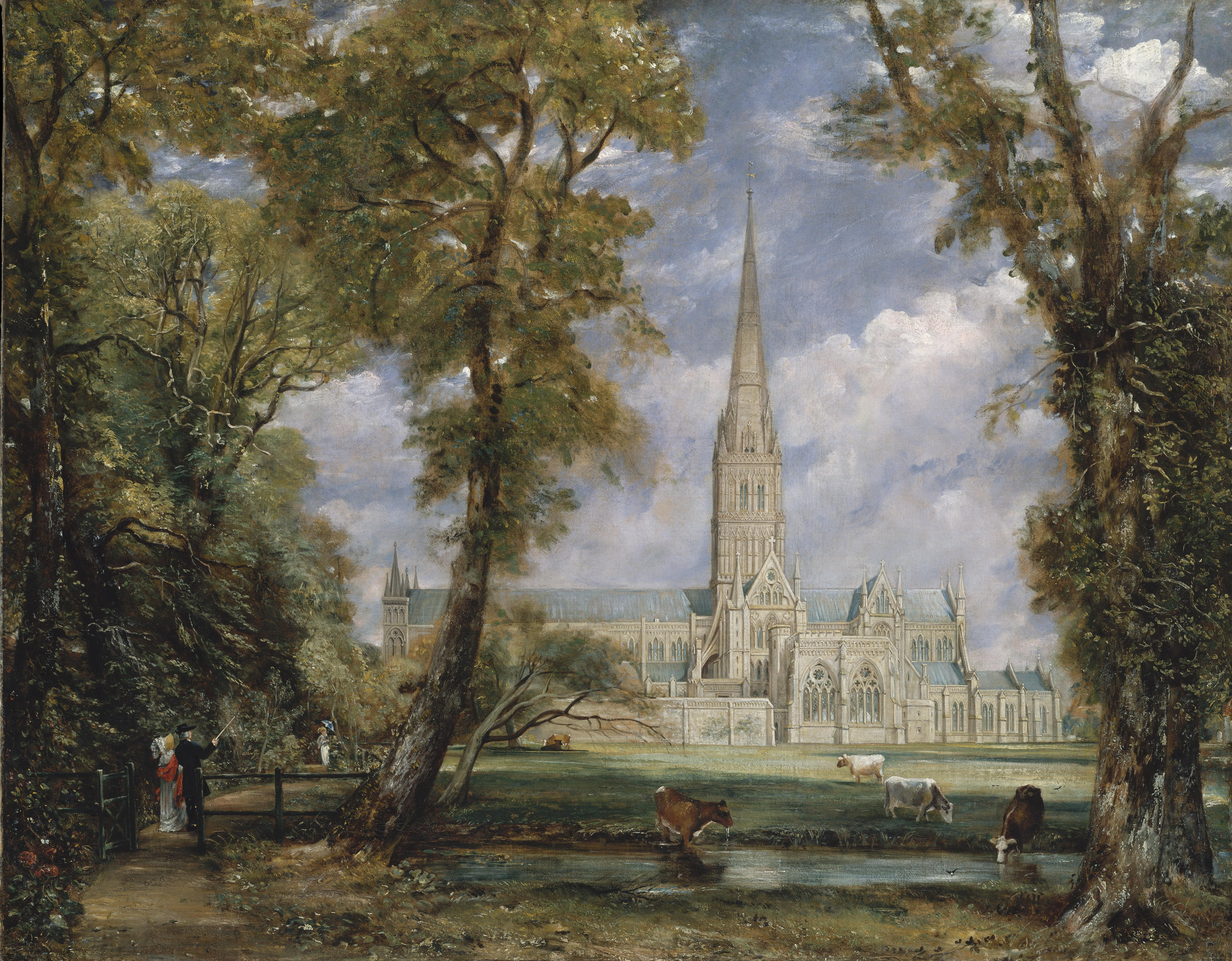 "Salisbury Cathedral from the Bishop's Garden," oil on canvas, by the English painter John Constable. 13.63" X 17.32". Courtesy of the Metropolitan Museum of Art, New York.